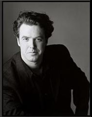 my husband and i took this